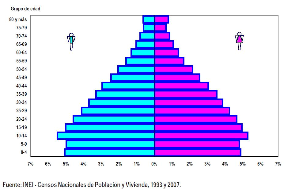 Ages pyramid of Perú, 2007